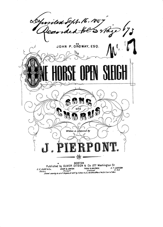 An original arrangement of "The One Horse Open Sleigh" at The Library of Congress.